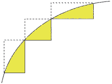 picture to explain the principles of the planimeter